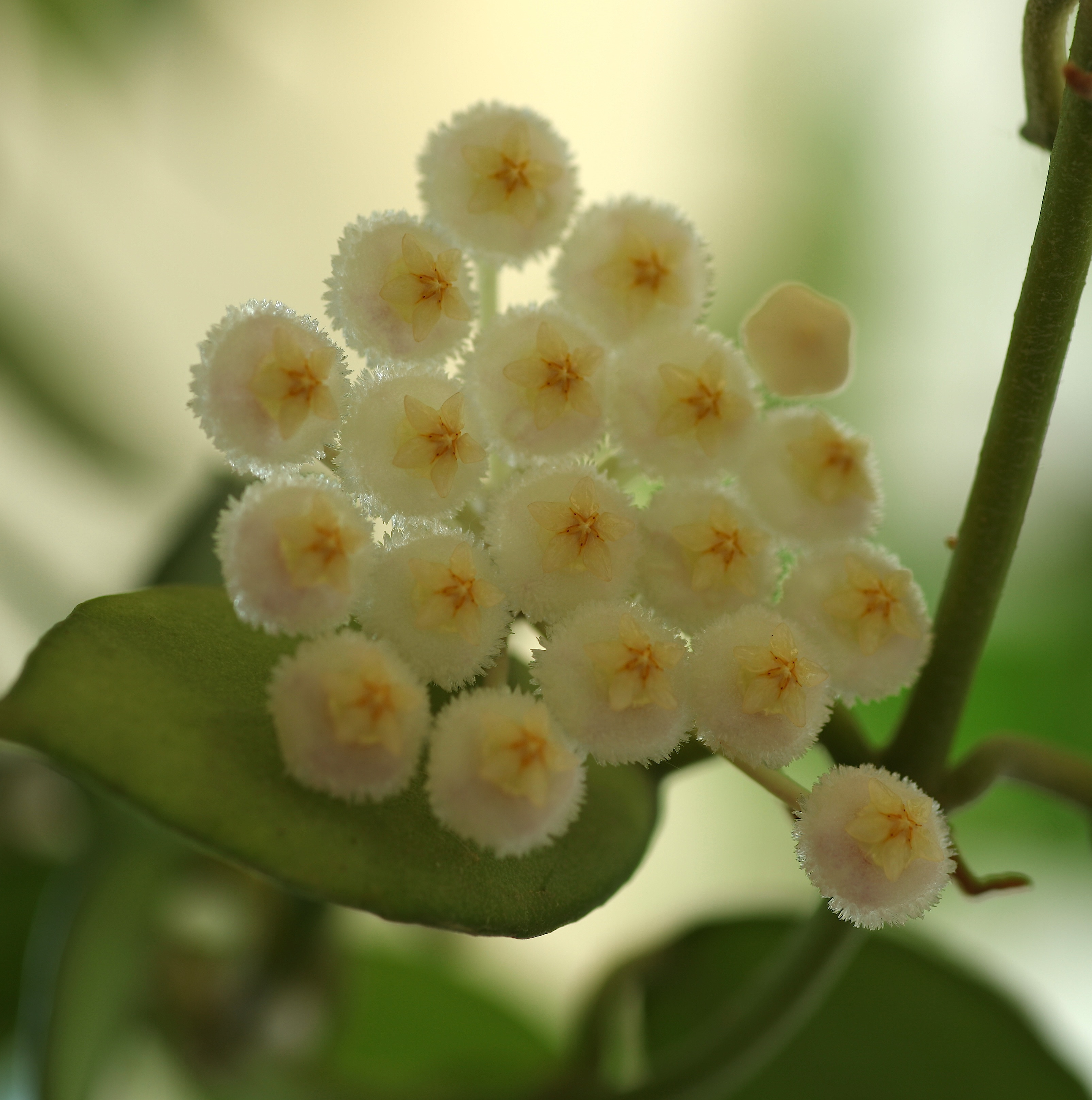 close up of Hoya lacunosa flower